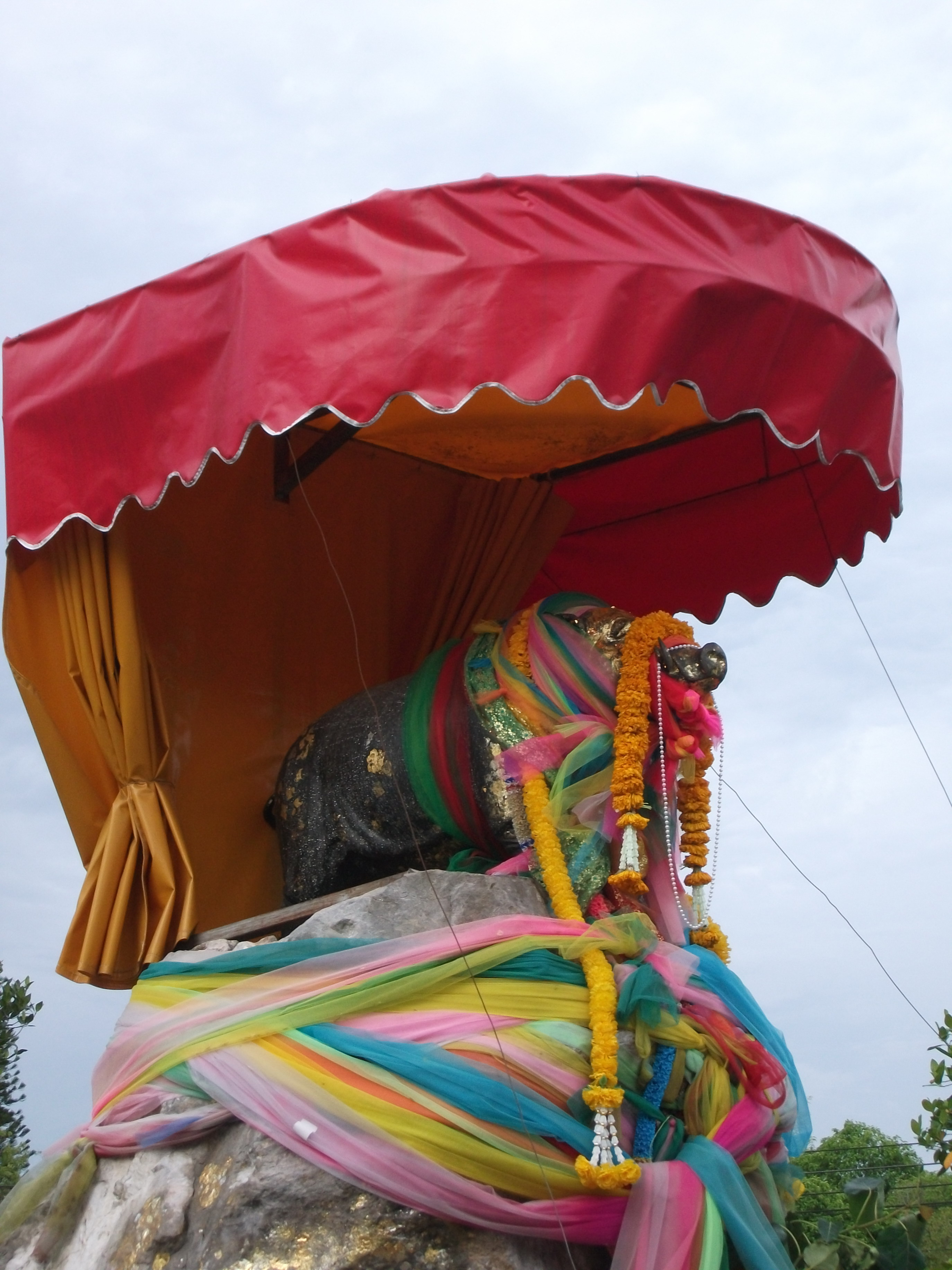 Pig Memorial, Bangkok, Thailand.